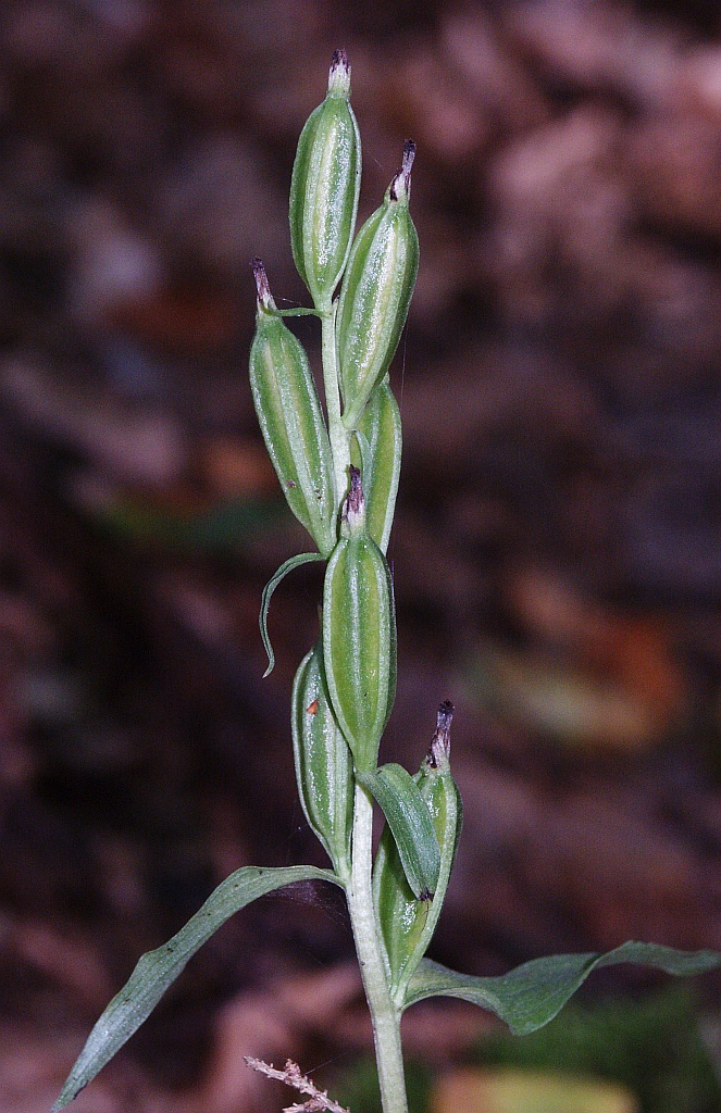 Cephalanthera damsonium, seed capsules